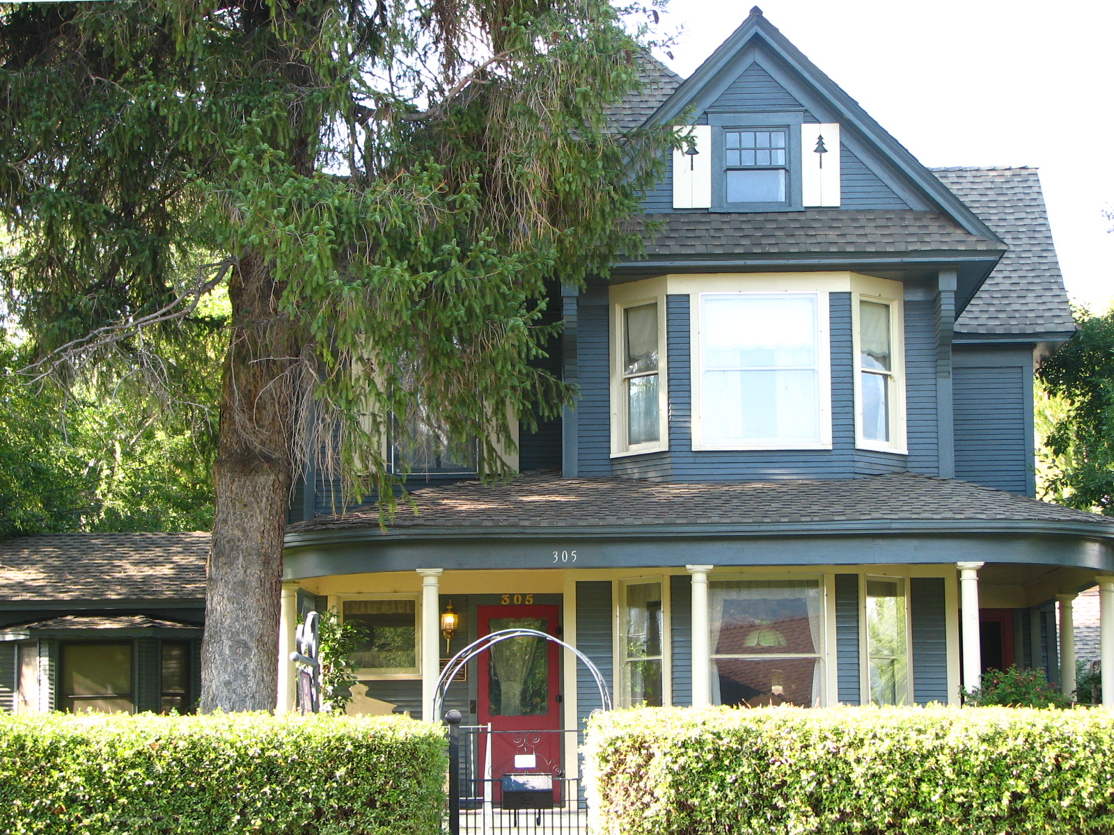 The Marion Reed Elliott House at 305 West 1st Street, Prineville, Oregon, United States is listed on the US National Register of Historic Places. It is currently in its historic use as a residence.NRHP reference number 89000049